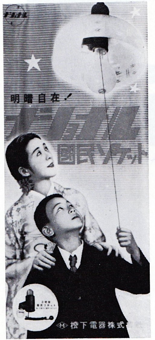 Poster of National Socket made by Matsushita Electric, in 1935.